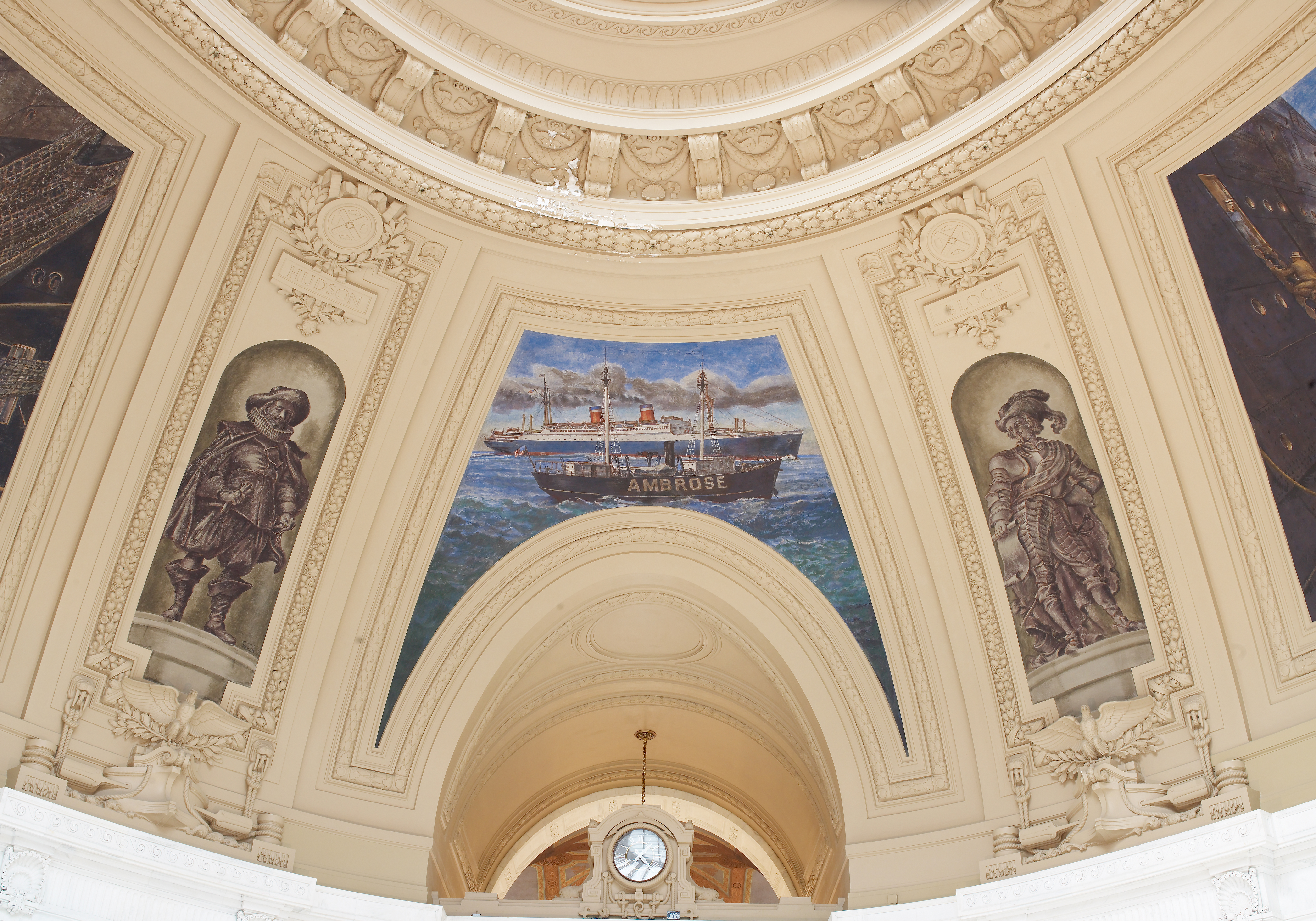 Photograph of fresco paintings (left to right) "Explorer Hudson", "SS Washington Passing Ambrose Lightship" and "Explorer Block" located in rotunda, Alexander Hamilton U.S. Custom House, New York, New York Notes: Artist: Reginald Marsh, 1937. Photographed as part of an assignment for the General Services Administration. Title information, date, and subject note provided by the photographer. Credit line: Photographs in the Carol M. Highsmith Archive, Library of Congress, Prints and Photographs Division. Gift; Carol M. Highsmith; 2009; (DLC/PP-2009:083). Forms part of the Carol M. Highsmith Archive. More information